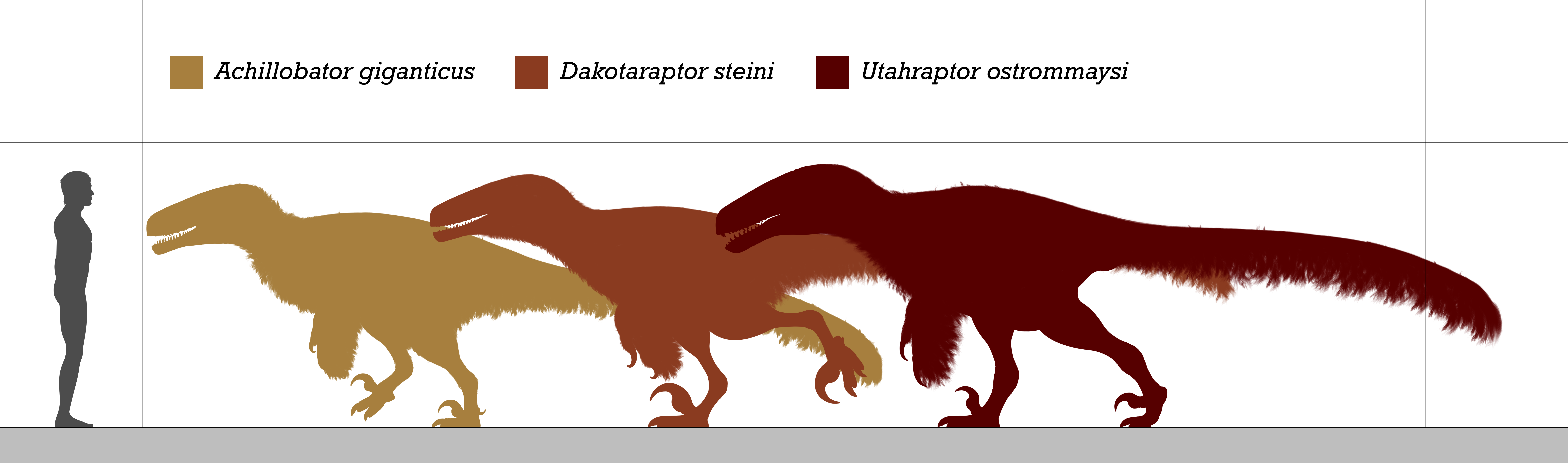 Size chart comparison between the largest dromaeosaurids described so far: Achillobator (6 meters)[1][2], Austroraptor (6 meters)[3][4], Dakotaraptor (5.5 meters)[5] and Utahraptor (7 meters)[6]. Velociraptor (1.8 meters)[2] was included in order to compare the regular size among many dromaeosaurids and these giants. ______________________________________________________________________________________________________________________